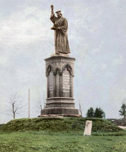 Postcard of Luther statue near Keila, Estonia, erected in 1862, given by Georg von Meyendorff (Generaladjutant), sculpted by Peter Clodt von Jürgensburg, demolished in 1949